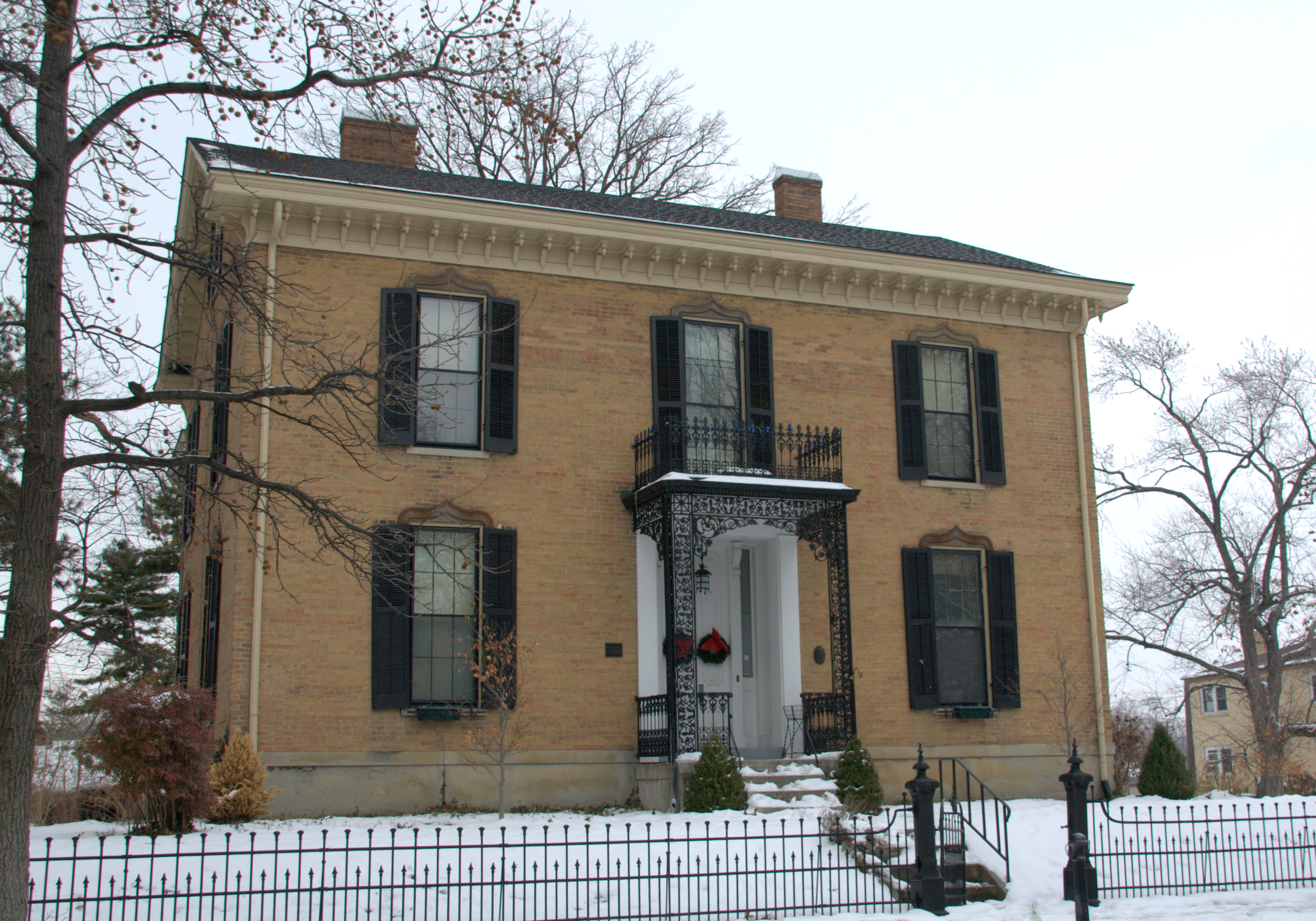 Anderson-Shaffer House in Hamilton, Oh. Photo by Greg Hume